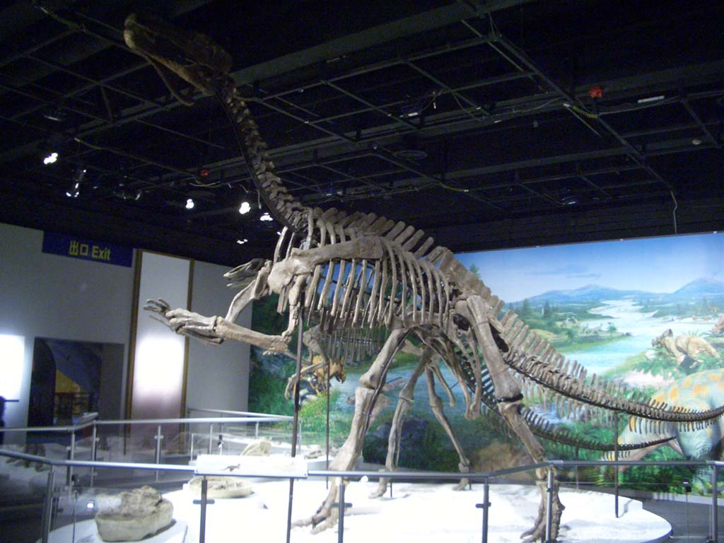 Iguanodon (unsure what species, does not appear to be the only valid one) skeleton displayed in Hong Kong Science Museum